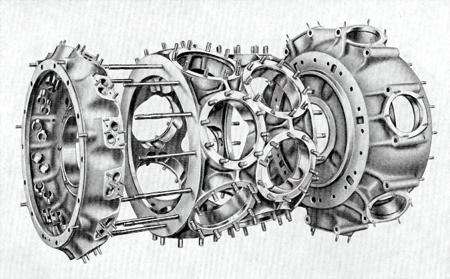 Gnome-Rhône 14M crankcase (constructor document, 1936)